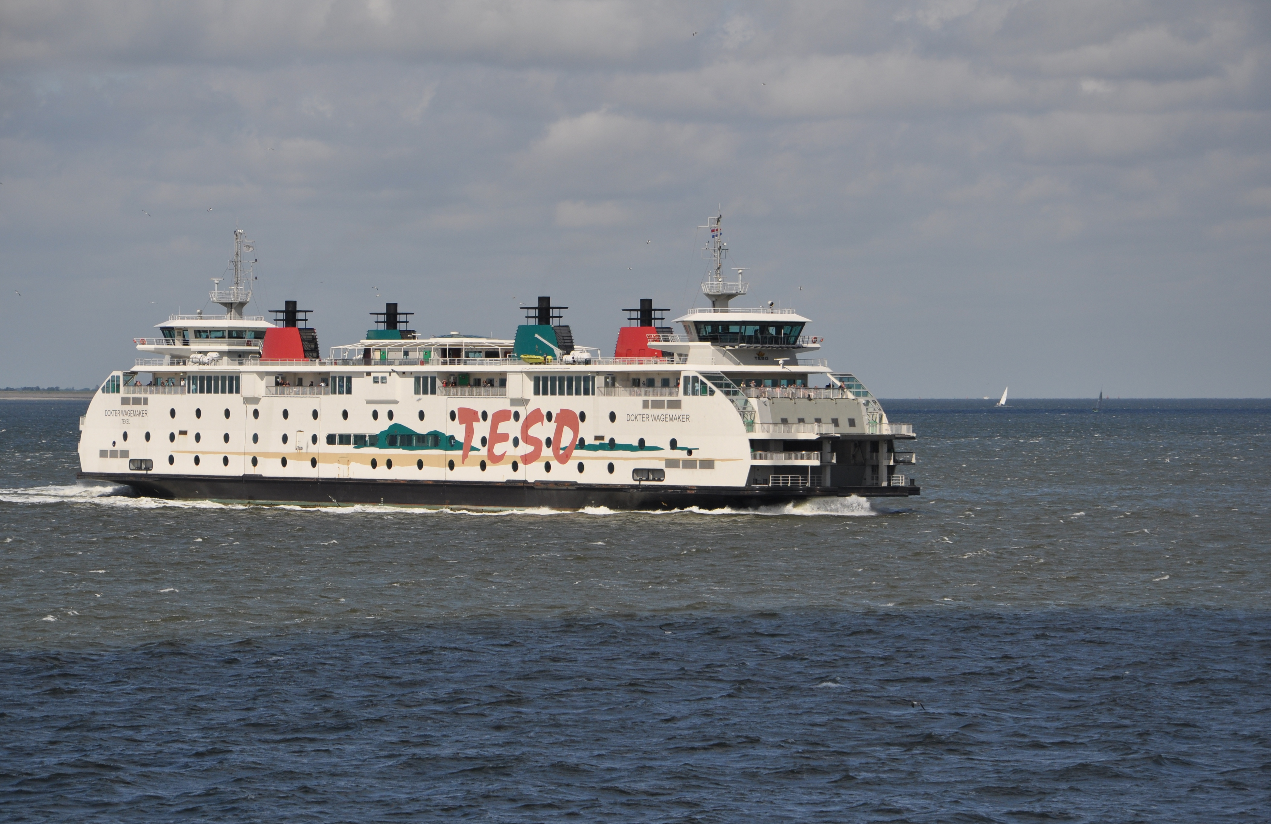 The ferry to Texel